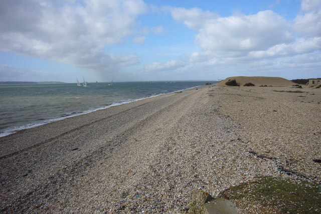 Beach and Solent at Browndown Danger Area used as firing range.